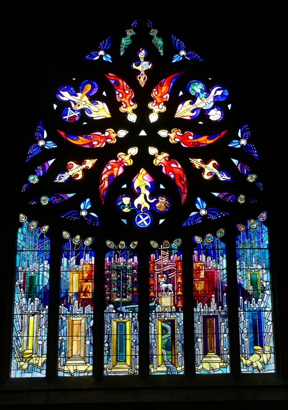 St Michael's Church, Linlithgow, Scotland. "Pentecost" by Crear McCartney (1992). South Transept window.